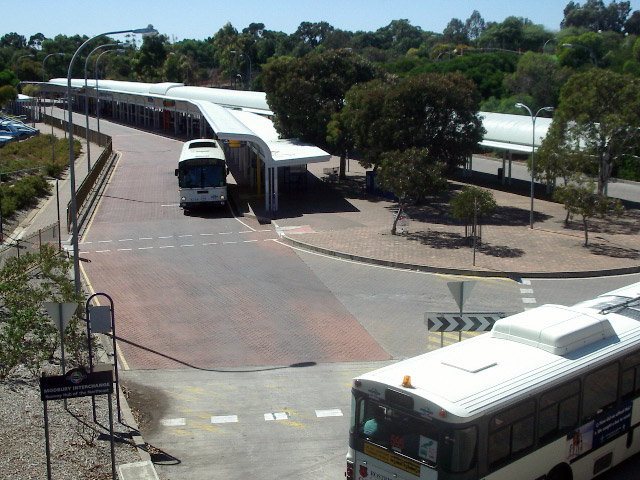 Photo of the Tea Tree Plaza Interchange. Created and uploaded by: Avochelm.